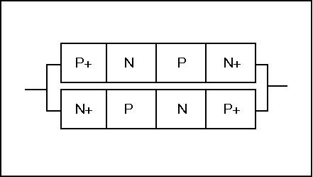 DIAC